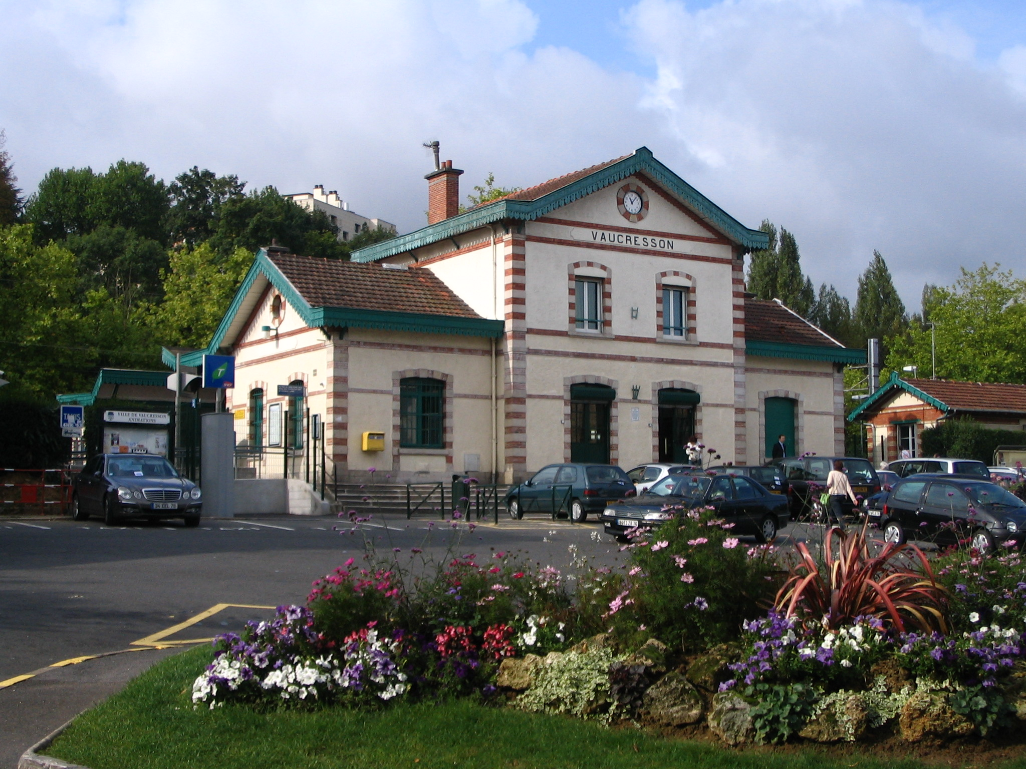 The railway station of Vaucresson, Hauts-de-Seine, France.